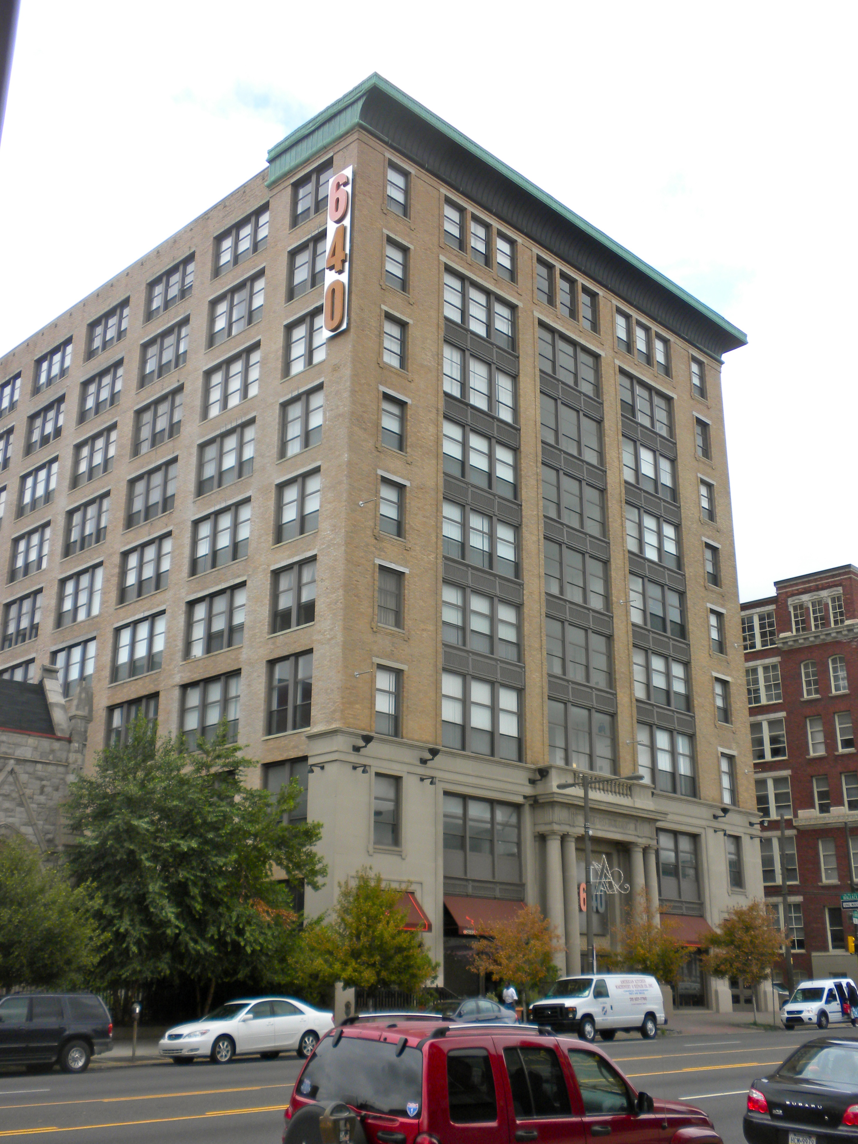 Mulford Building on the NRHP since August 20, 2004. At 640 North Broad St., Philadelphia in the Spring Garden neighborhood of North Philly.